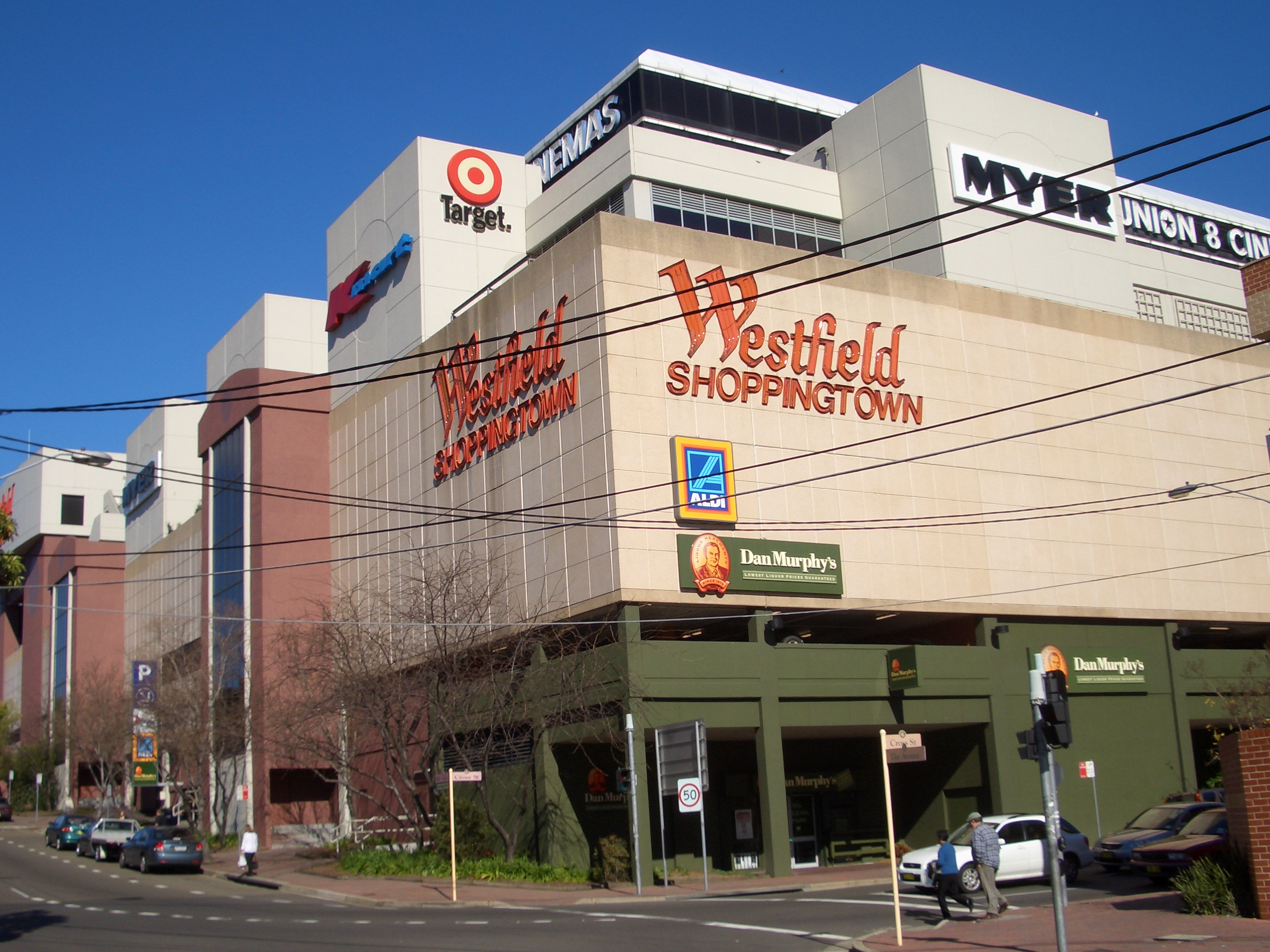 Westfield Hurstville, Sydney, Australia.